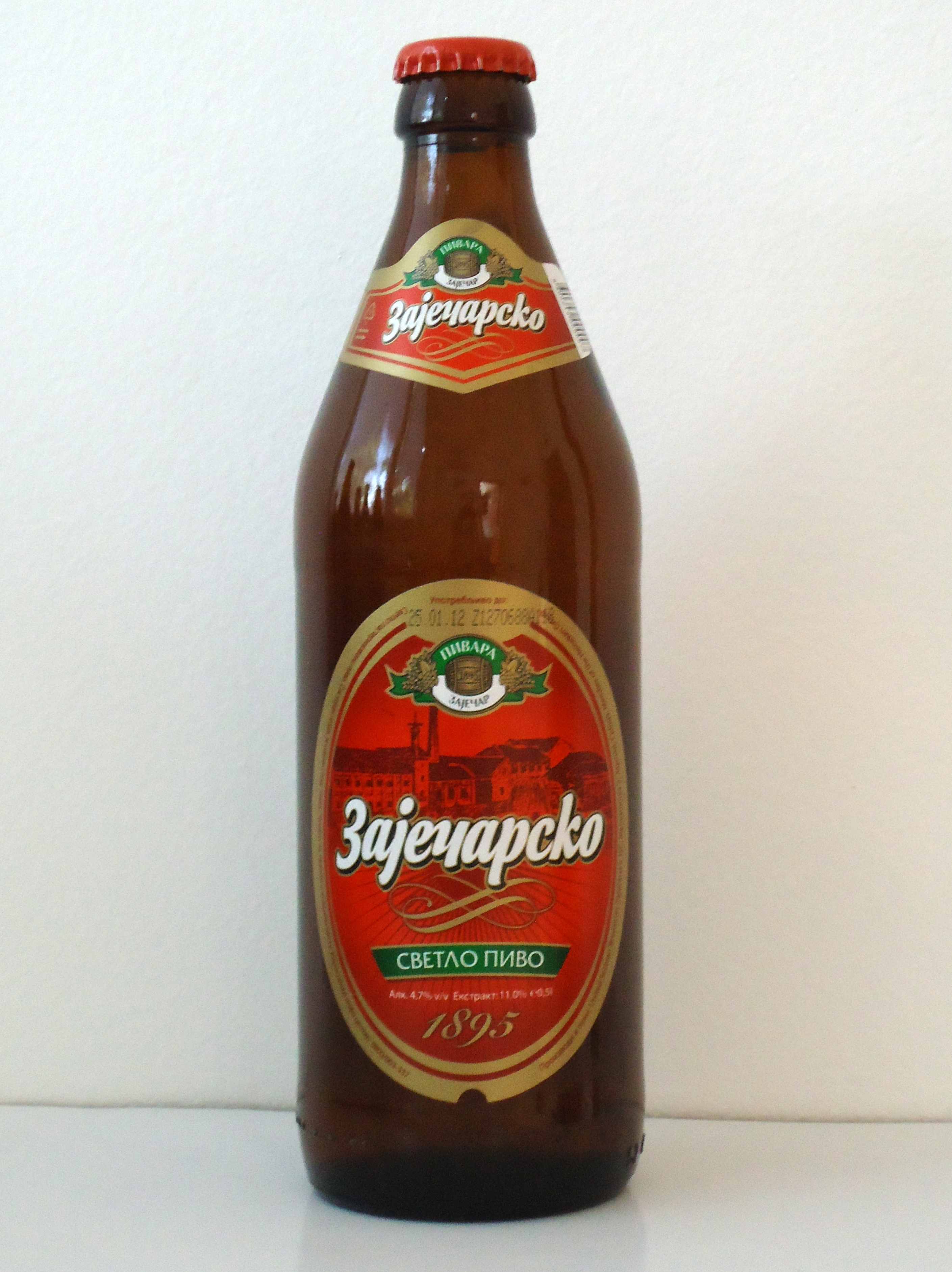 Zajecharsko beer